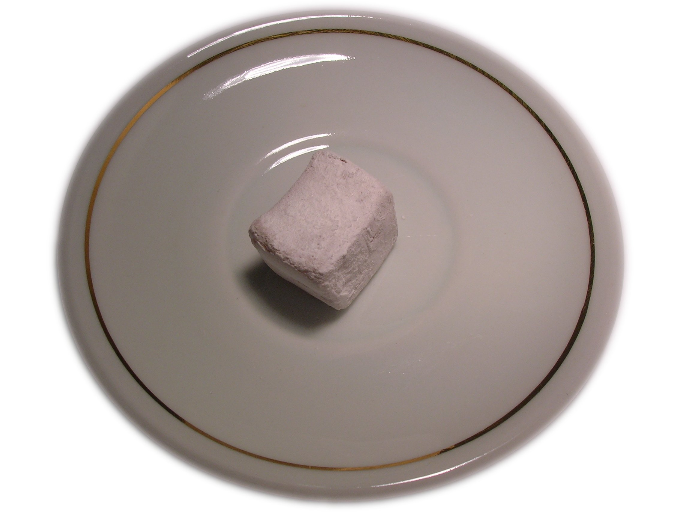 Turkish delight (Lokum) fr: Loukoum Artificial Light, made with Nikon Coolpix 4600, and the Gimp.